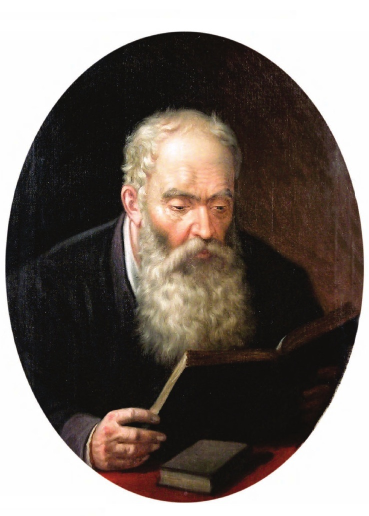 TATĂL PICTORULUI CITIND (IOAN POPP MOLDOVAN de GALAŢI) - The painter's father while reading. Muzeul Brukenthal din Sibiu.